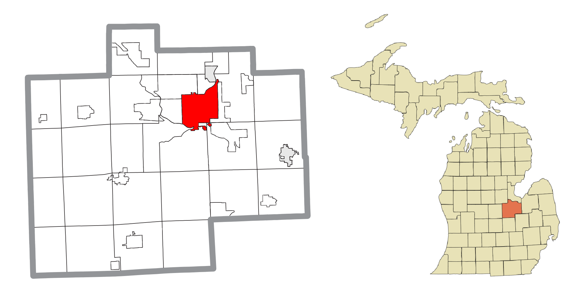 Saginaw, MI